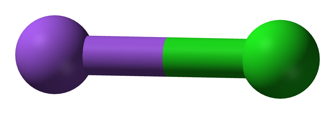 Ball-and-stick model of the sodium chloride molecule, NaCl. Structural information (determined by microwave spectroscopy) from CRC Handbook, 88th edition. Image generated in Accelrys DS Visualizer.